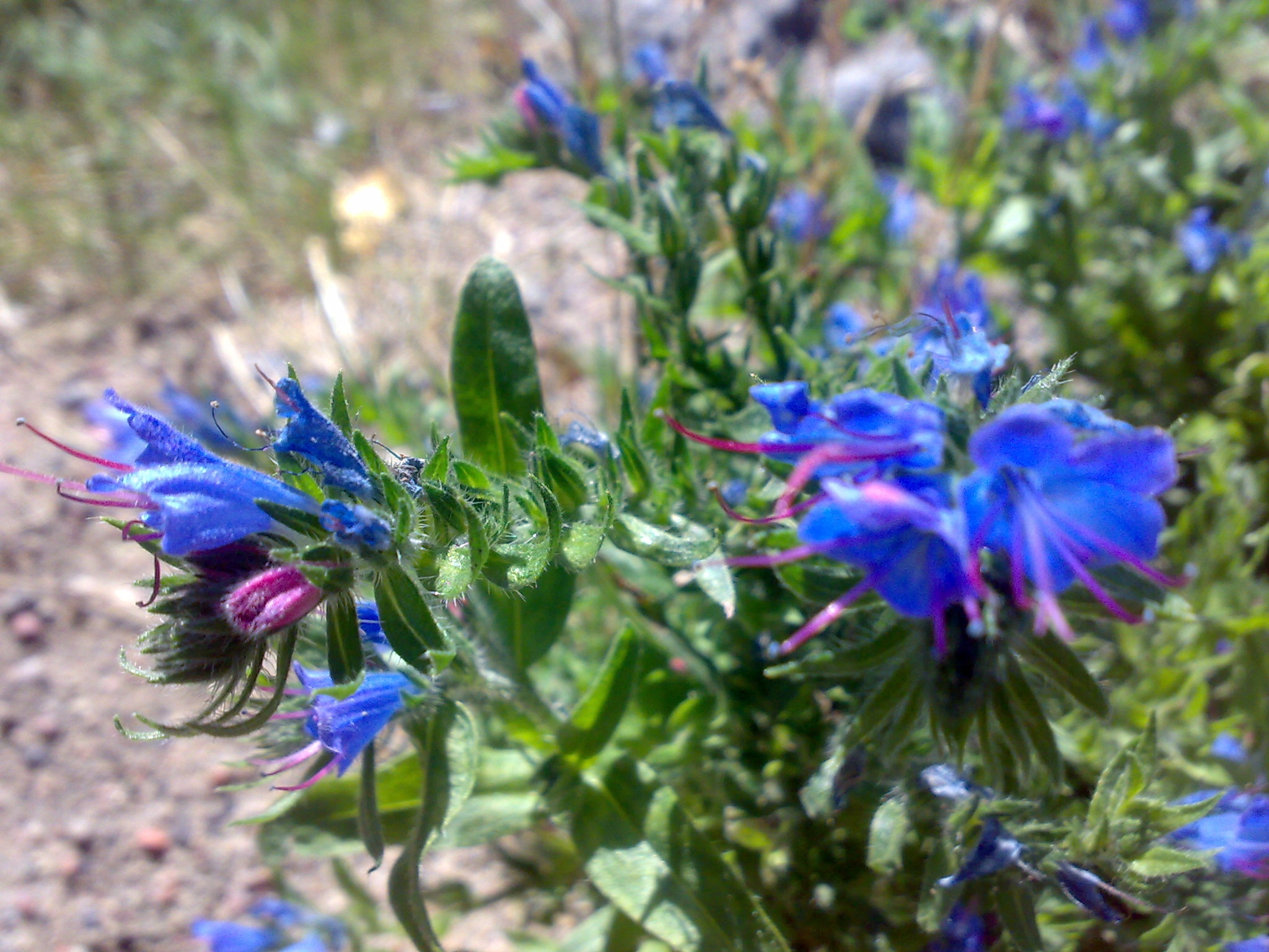 Echium vulgare